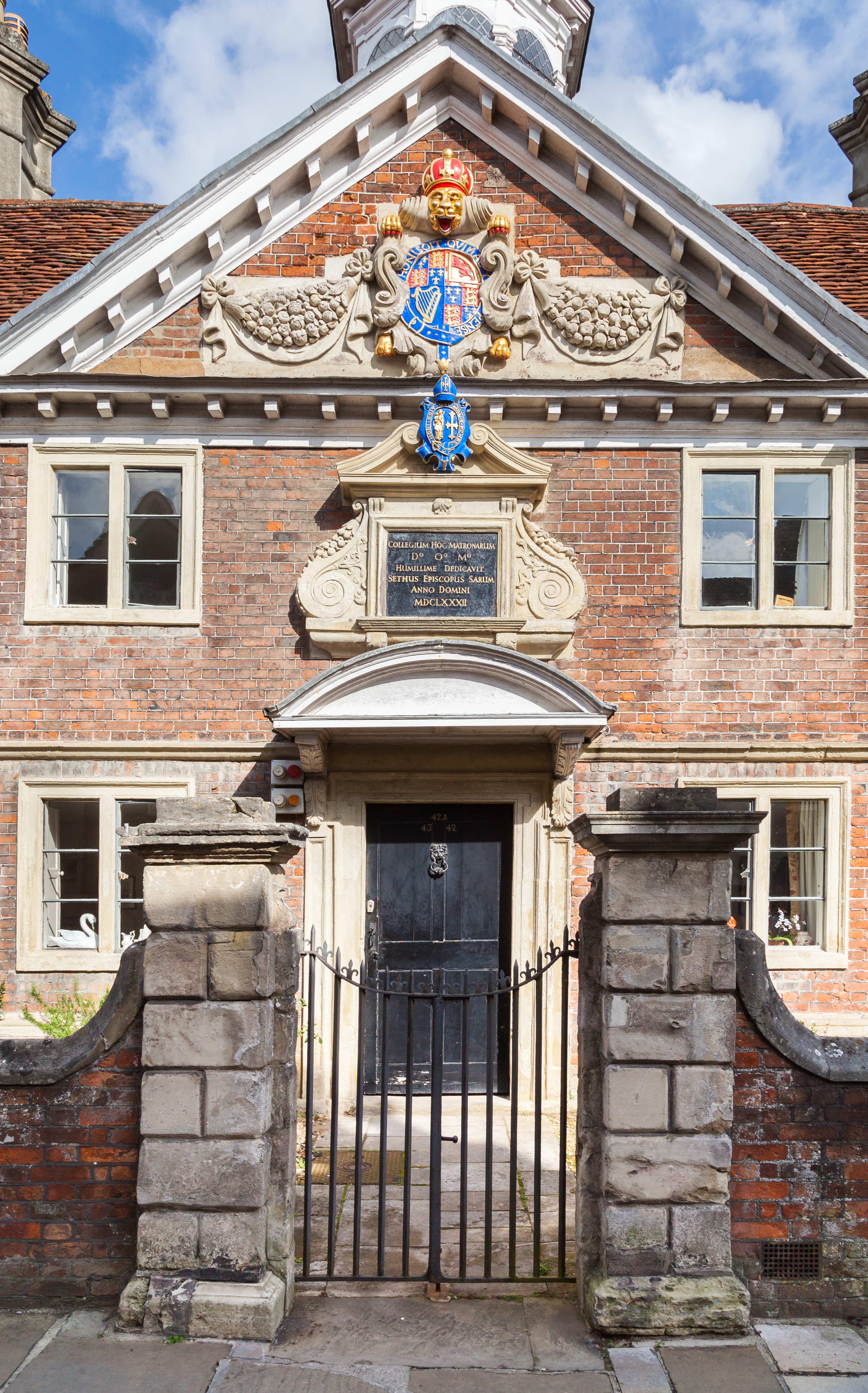 Matron's College, Salisbury, England